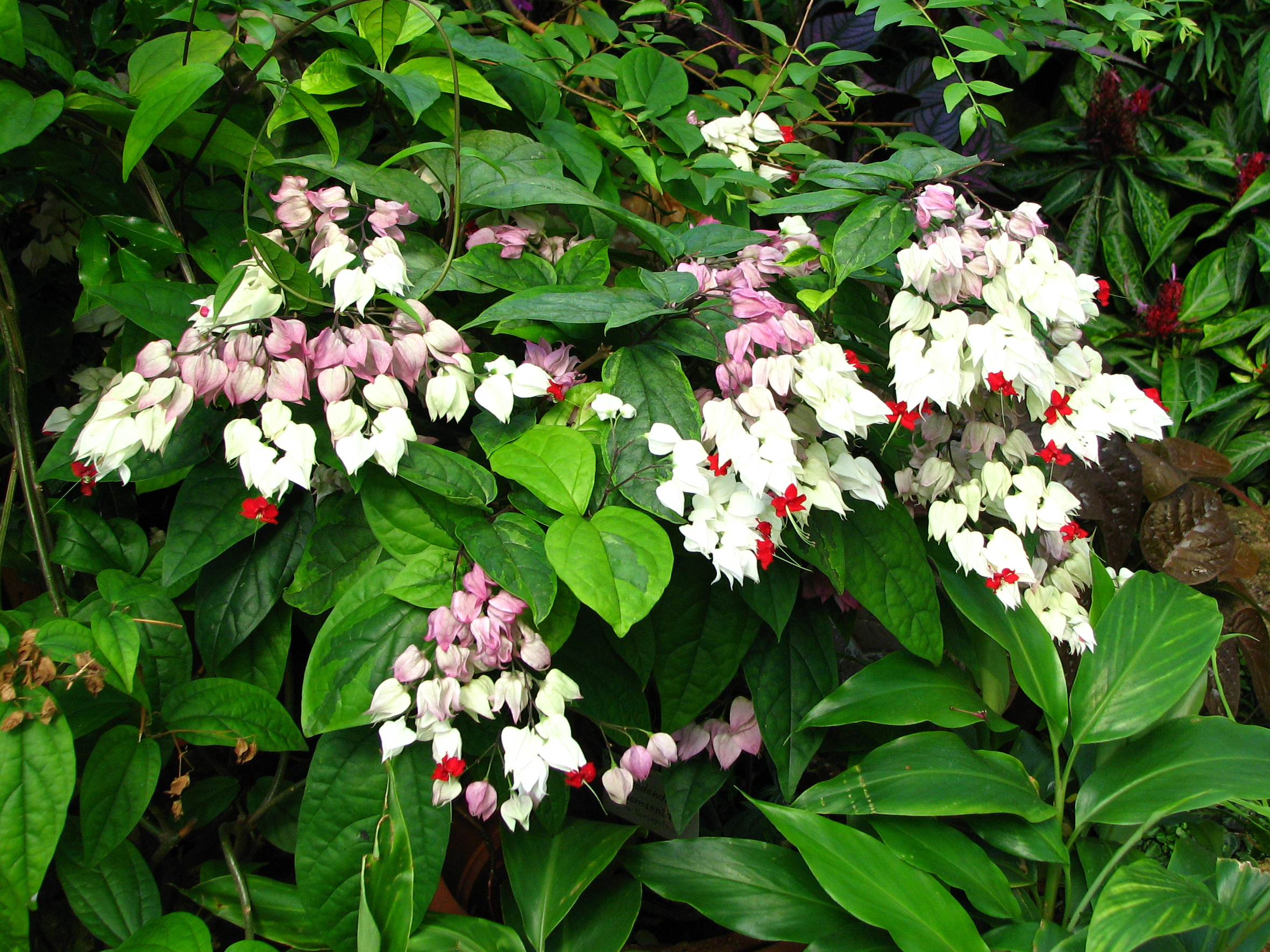 Greenhouses of the Botanical garden (Saint Petersburg).